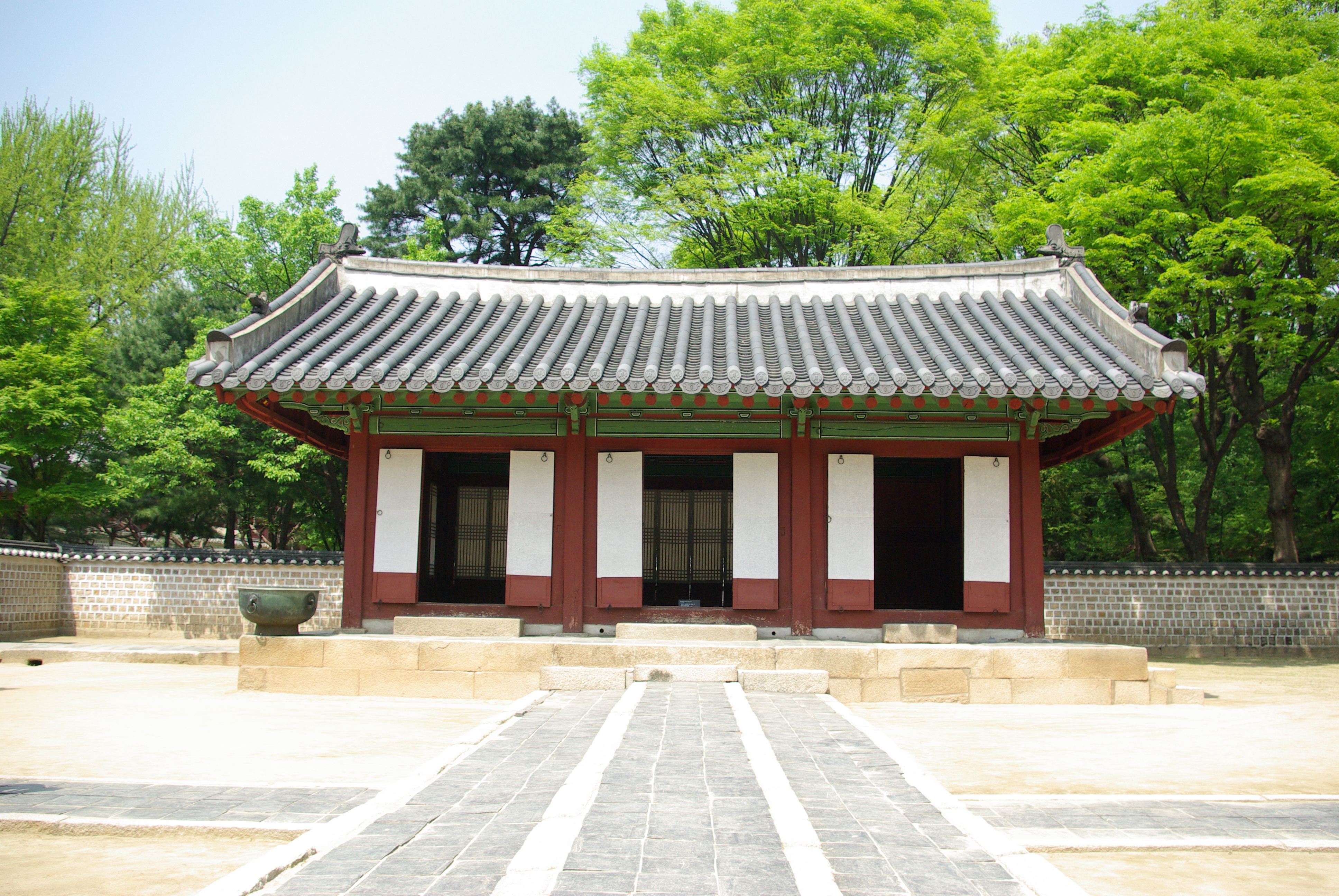 Eojaesil located at Jaegung area, Jongmyo.